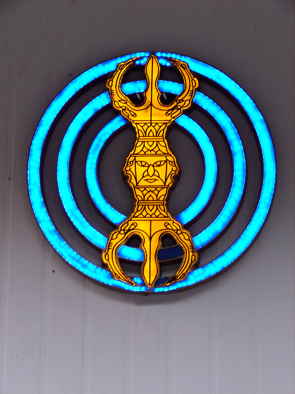 Cheontae Sect Logo at Guinsa, a Buddhist Temple located near Danyang South Korea, has architecture following that of many other Buddhist temples in Korea, but is also markedly different in that the structures are several stories tall, instead of the typical one or two stories that structures found in many other Korean temples.